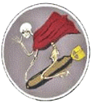 Emblem of the 447th Bombardment Group (World War II)